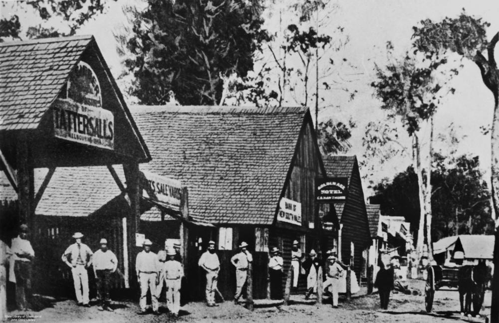 Mary Street, Gympie, 1868. A street scene with groups of gentlemen standing in front of a row of business houses with shingled roofs. Some of the businesses include Tattersall's, the saleyards, Bank of New South Wales and the Golden Age Hotel.